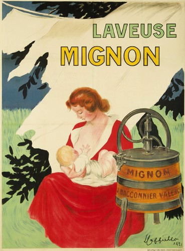 Poster Laveuse Mignon